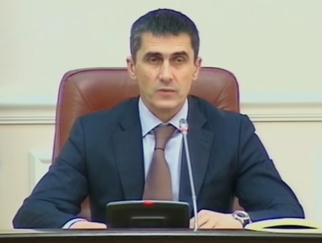 Vitaliy Yarema, Ukrainian politician, Vice Prime Minister of Ukraine